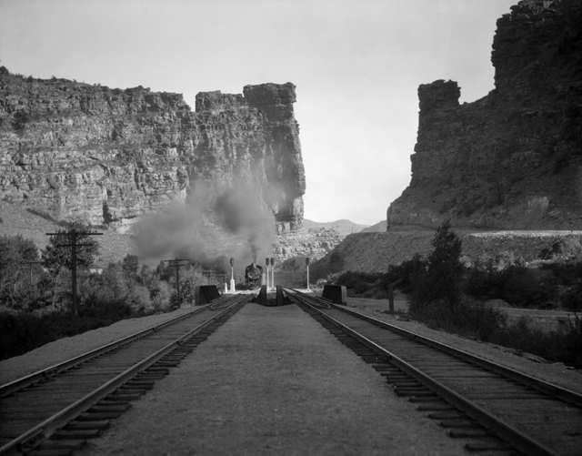 Denver and Rio Grande Western Railroad 1154, 2-8-0, doubleheading westbound train No.3 upgrade at Castle Gate, Utah